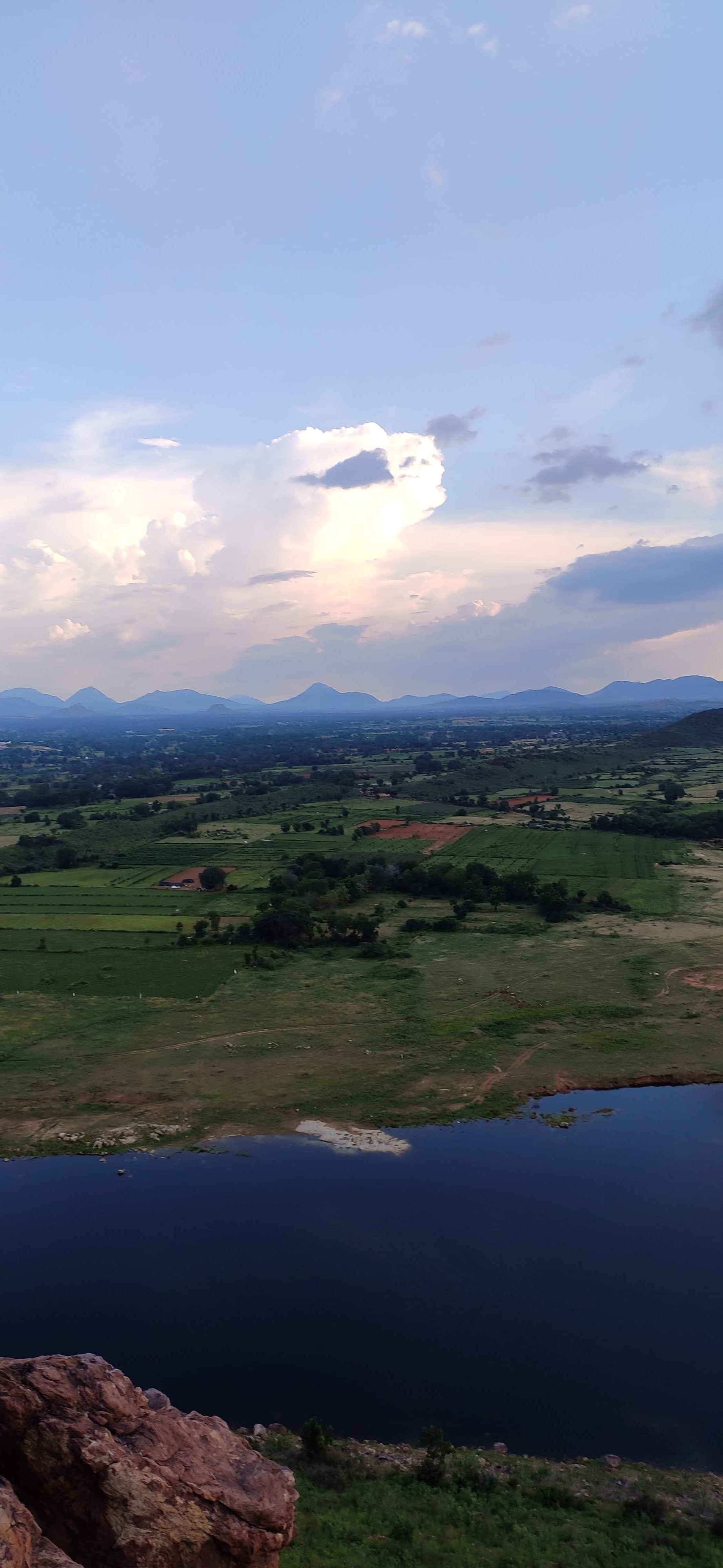 Baligutta view point